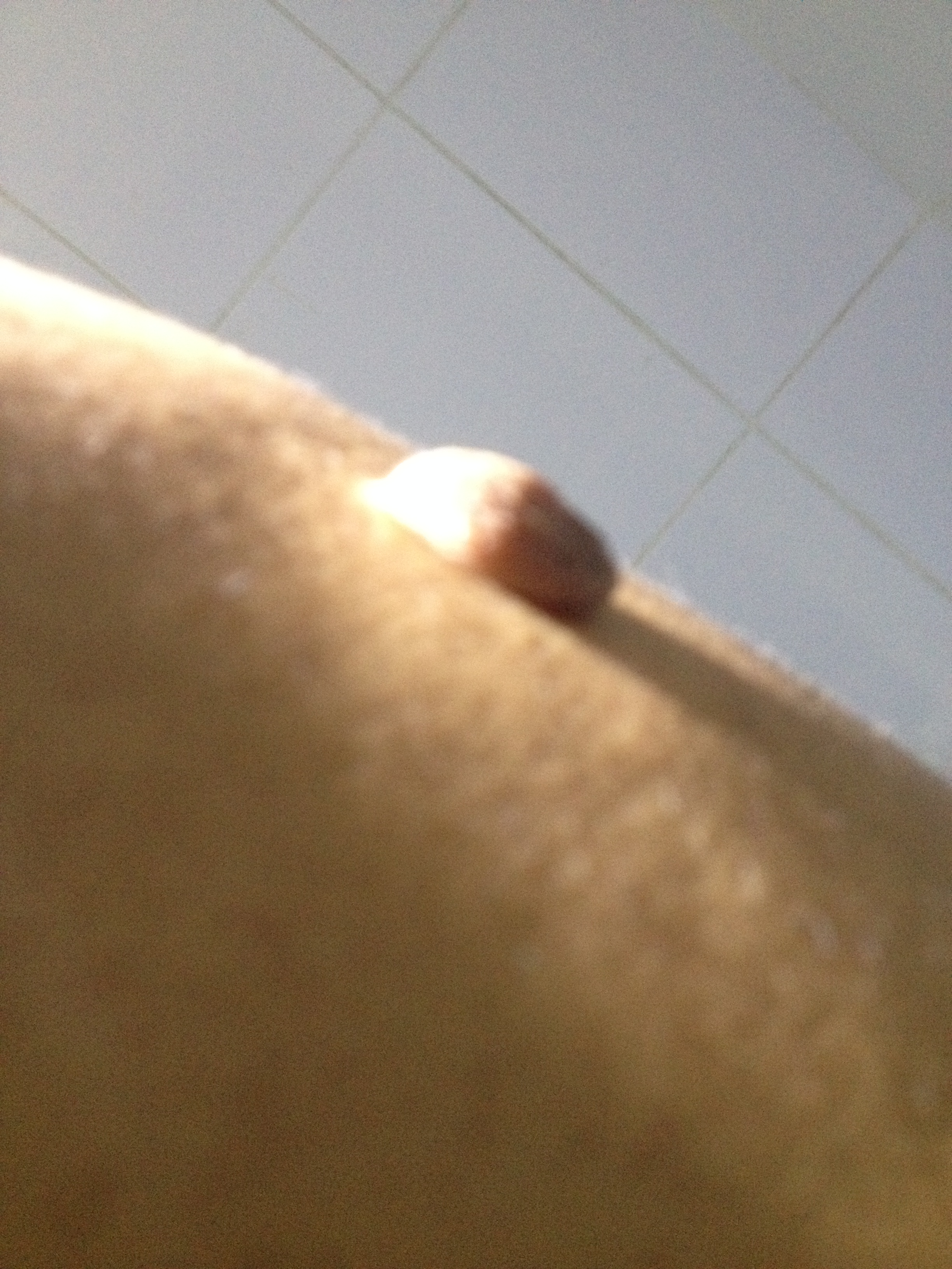 Fibro lipoma upper back just below the shoulder ,just like a Medium sized Raisin